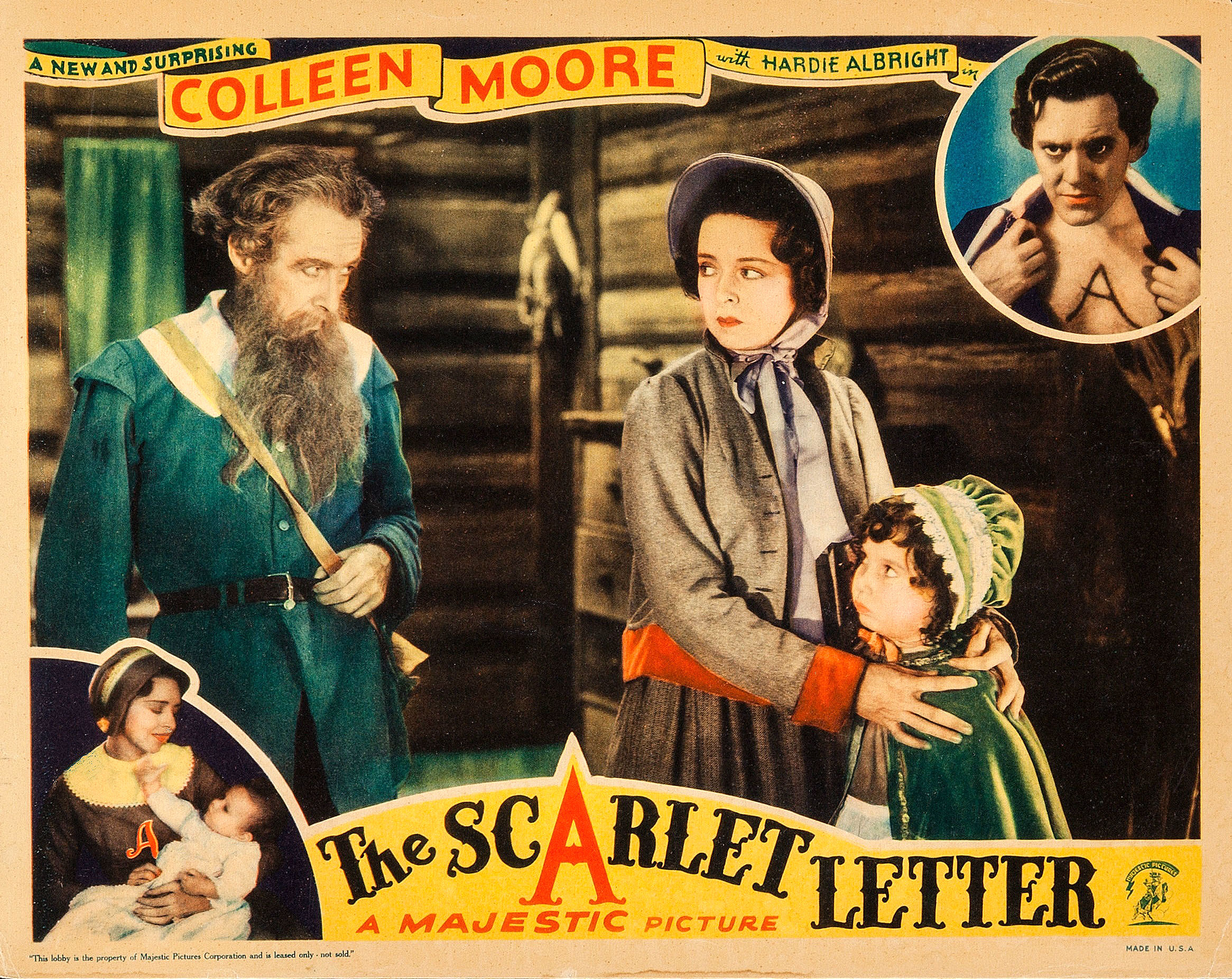 Lobby card for the 1934 film The Scarlet Letter with Henry B. Walthall, Colleen Moore, Hardie Albright, and Cora Sue Collins.